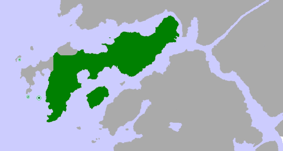 Natura 2000 areas in Ruissalo